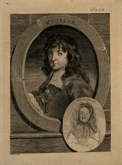 Richard Gibson, a dwarf to Charles I, with a small roundel of Anne Gibson, his wife. Line engraving by A. Walker.